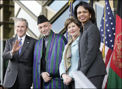 President George W. Bush waves as he stands with President Hamid Karzai of Afghanistan, Mrs. Laura Bush and Secretary of State Condoleezza Rice during welcoming ceremonies Wednesday, March 1, 2006, in Kabul.